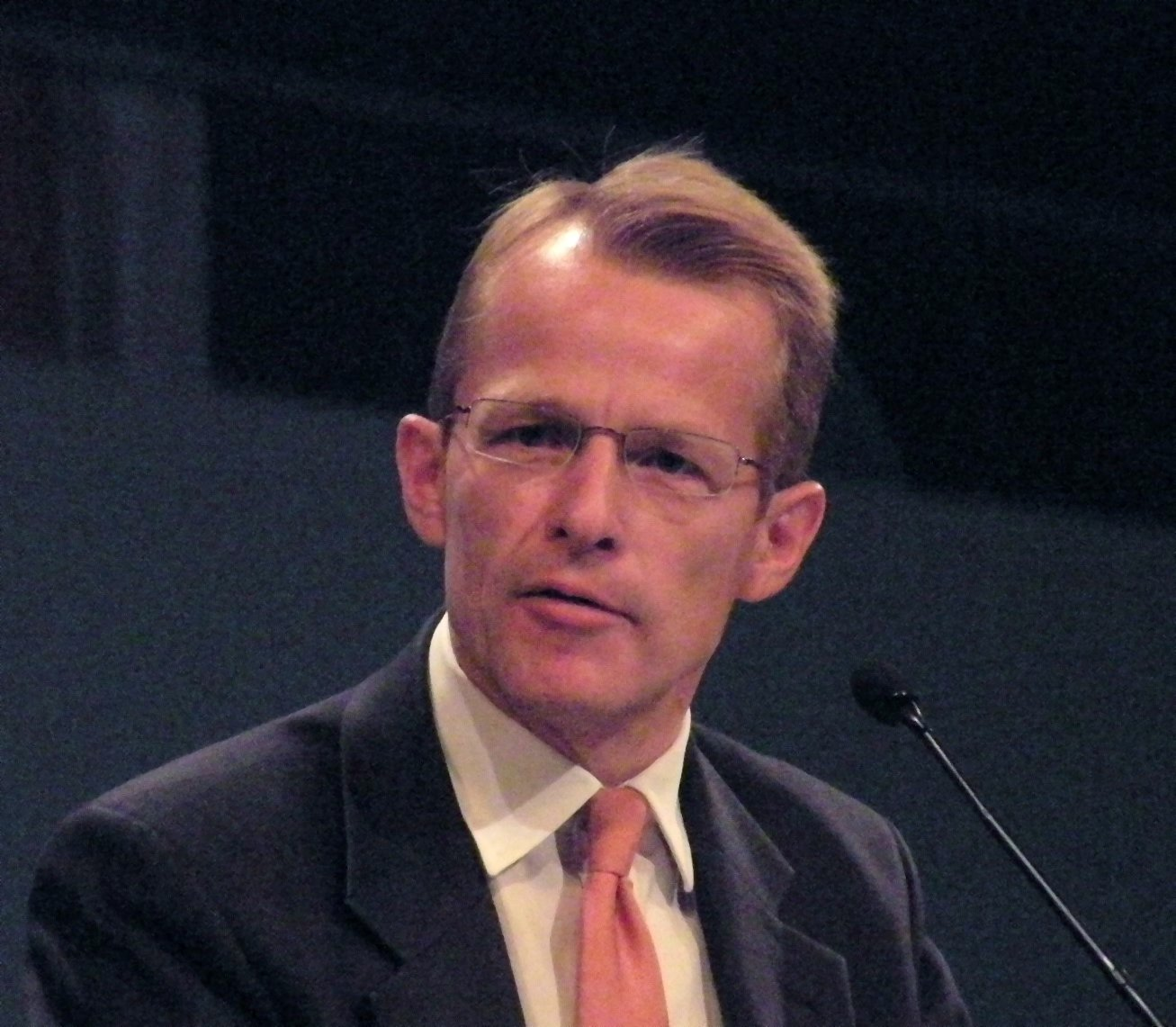 David Laws MP addressing a Liberal Democrat conference in the Bournemouth International Centre